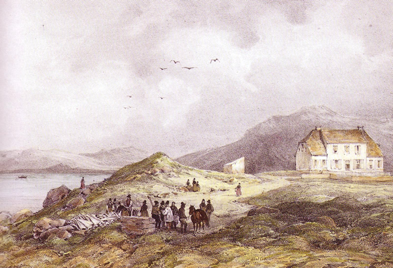 Biskupsetrið í Laugarnesi í Reykjavík árið 1836. Húsið var byggt fyrir Steingrím Jónsson biskup 1825-1826. The residence of the bishop of Iceland in Laugarnes, Reykjavik 1836 . Colored version of image:Gaimard24.jpg